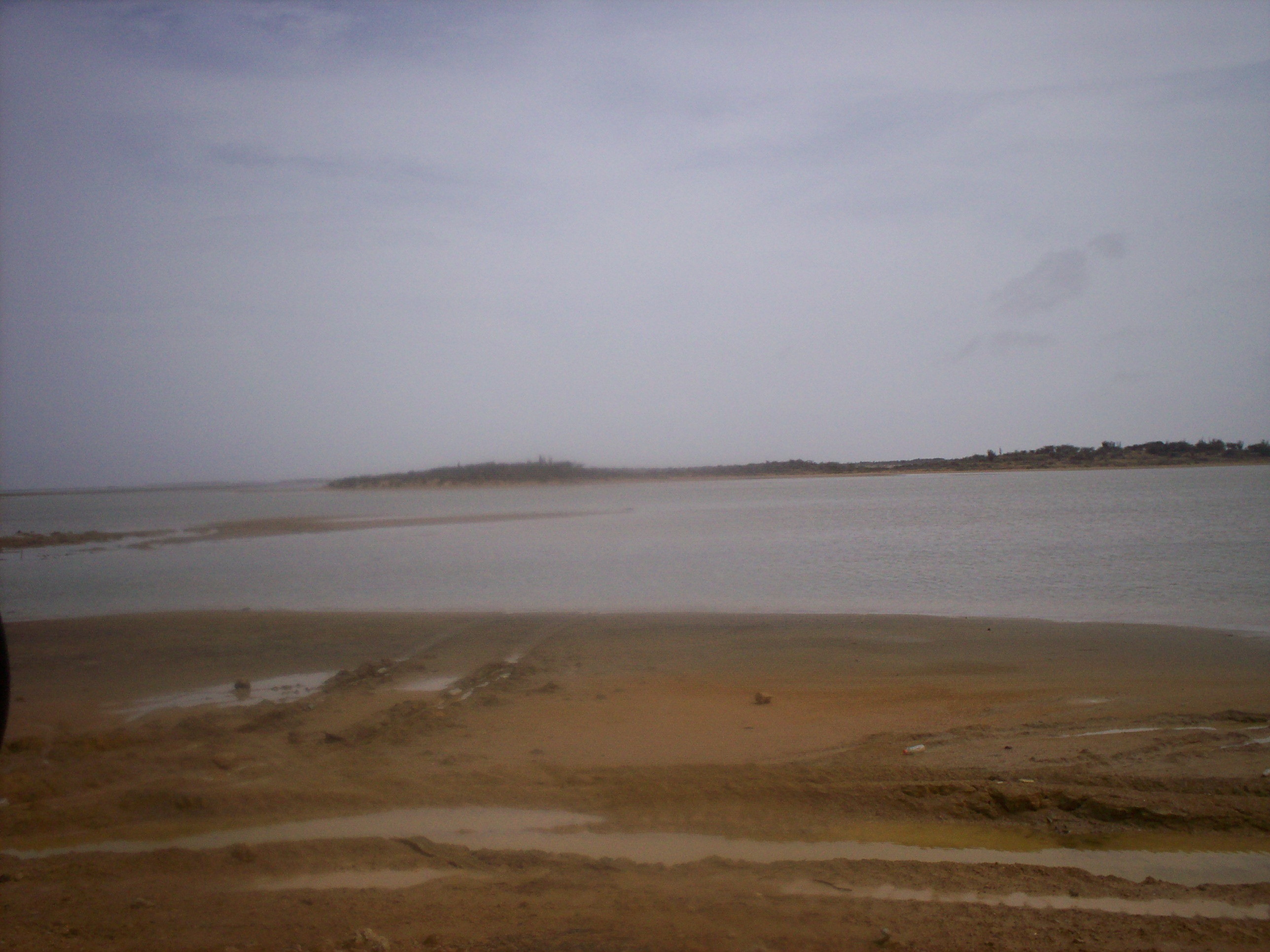 This is a picture of Paraguana